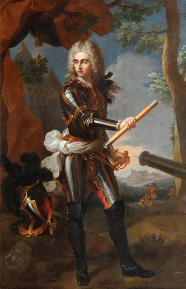 George Keith, 10th Earl Marischal (1692-1778) Born in Kincardine